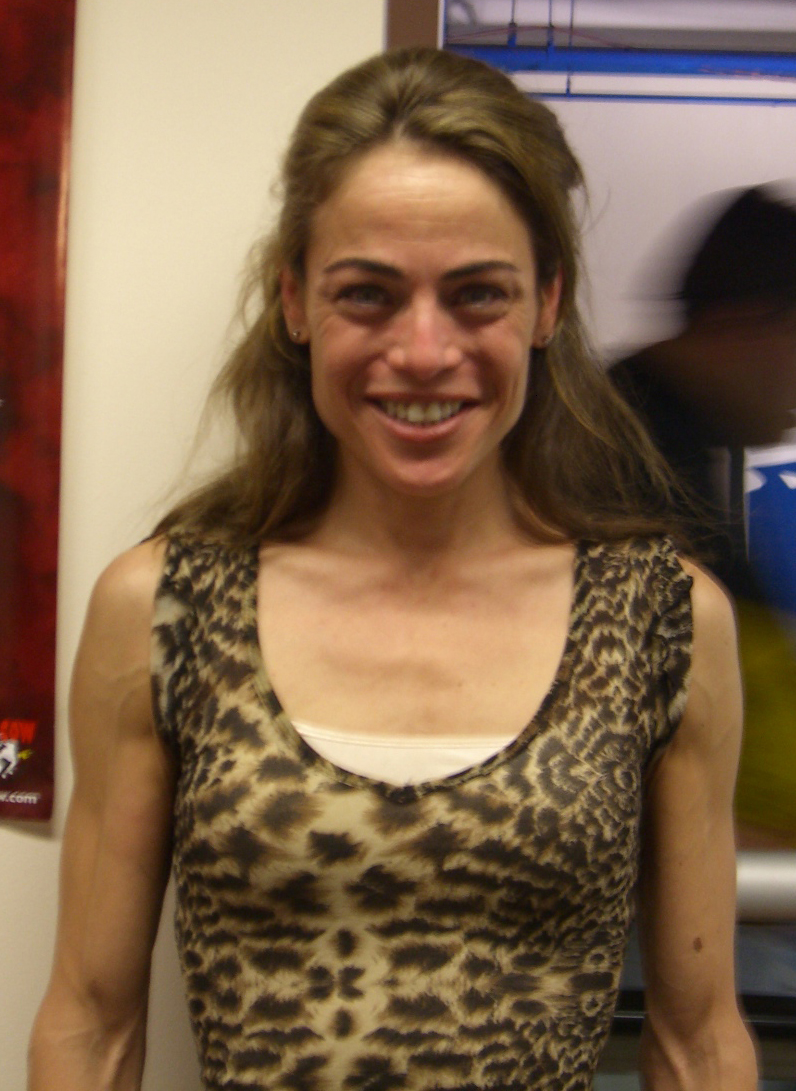 Actress Yancy Butler at the Big Apple Convention in Manhattan, June 8, 2008.